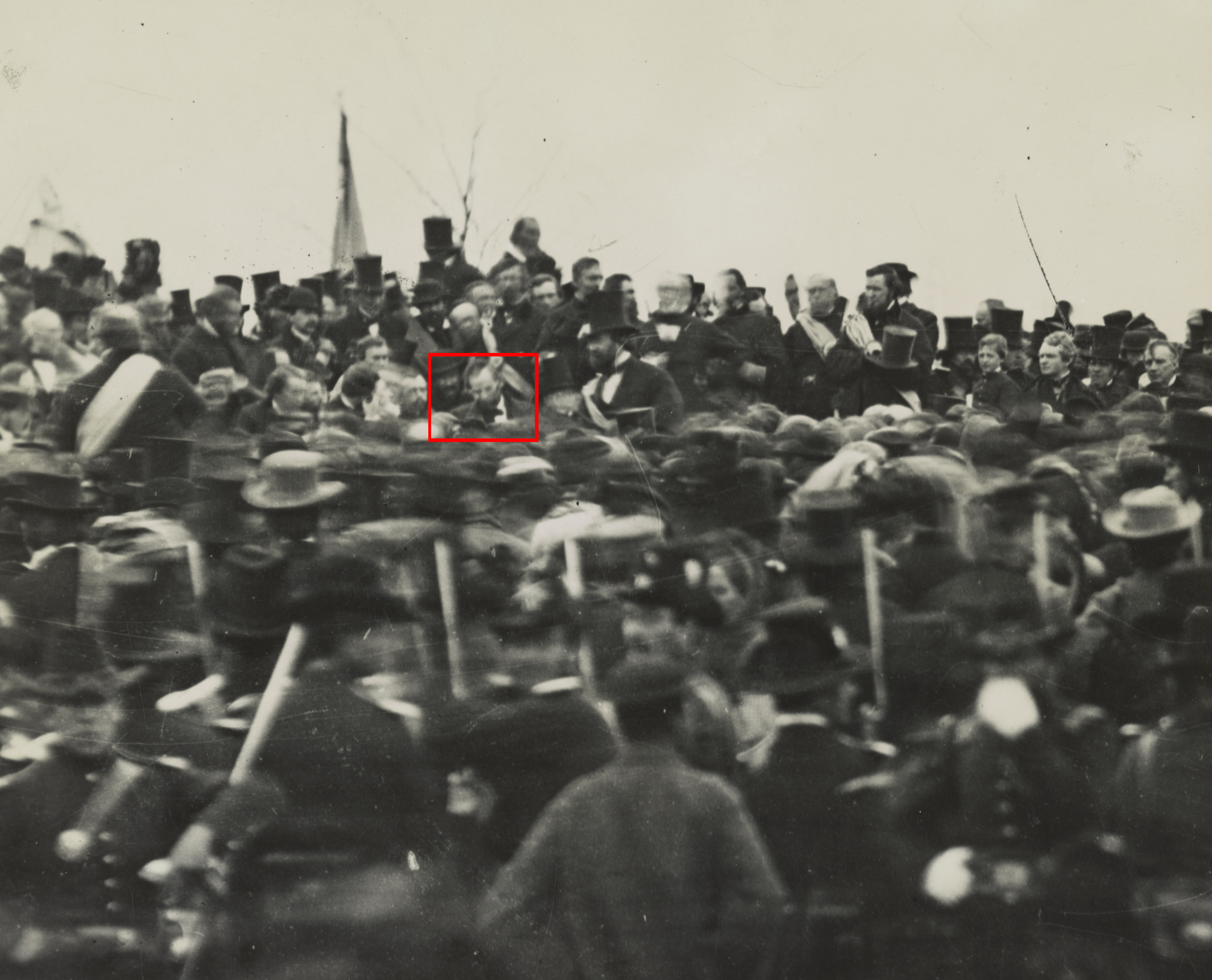 Abraham Lincoln (in the center) at the dedication of the Soldiers' National Cemetery in Gettysburg, Pennsylvania, on November 19, 1863. Made from the original glass plate negative at the National Archives which had lain unidentified for fifty-five years until 1952 when Josephine Cobb recognized Lincoln in the image. To Lincoln's left is bodyguard Ward Hill Lamon. To his far left is Governor Andrew G. Curtin of Pennsylvania. The photograph is estimated to have been taken at about noontime, just after Lincoln arrived, before Edward Everett's arrival and about three hours before Lincoln gave his famous Gettysburg Address[1]. LOC note: Photo is a reprint of a small detail of a photo showing the crowd gathered for the dedication of the Soldiers' National Cemetery in Gettysburg, Penn., where President Abraham Lincoln gave his now famous speech, the Gettysburg Address. Lincoln is visible facing the crowd, not wearing a hat, about an inch below the third flag from the left. Josephine Cobb first found Lincoln's face while working with a glass plate negative at the National Archives in 1952. (Source: NARA, Rare Photo of Lincoln at Gettysburg